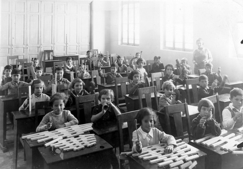 Music lesson 1935